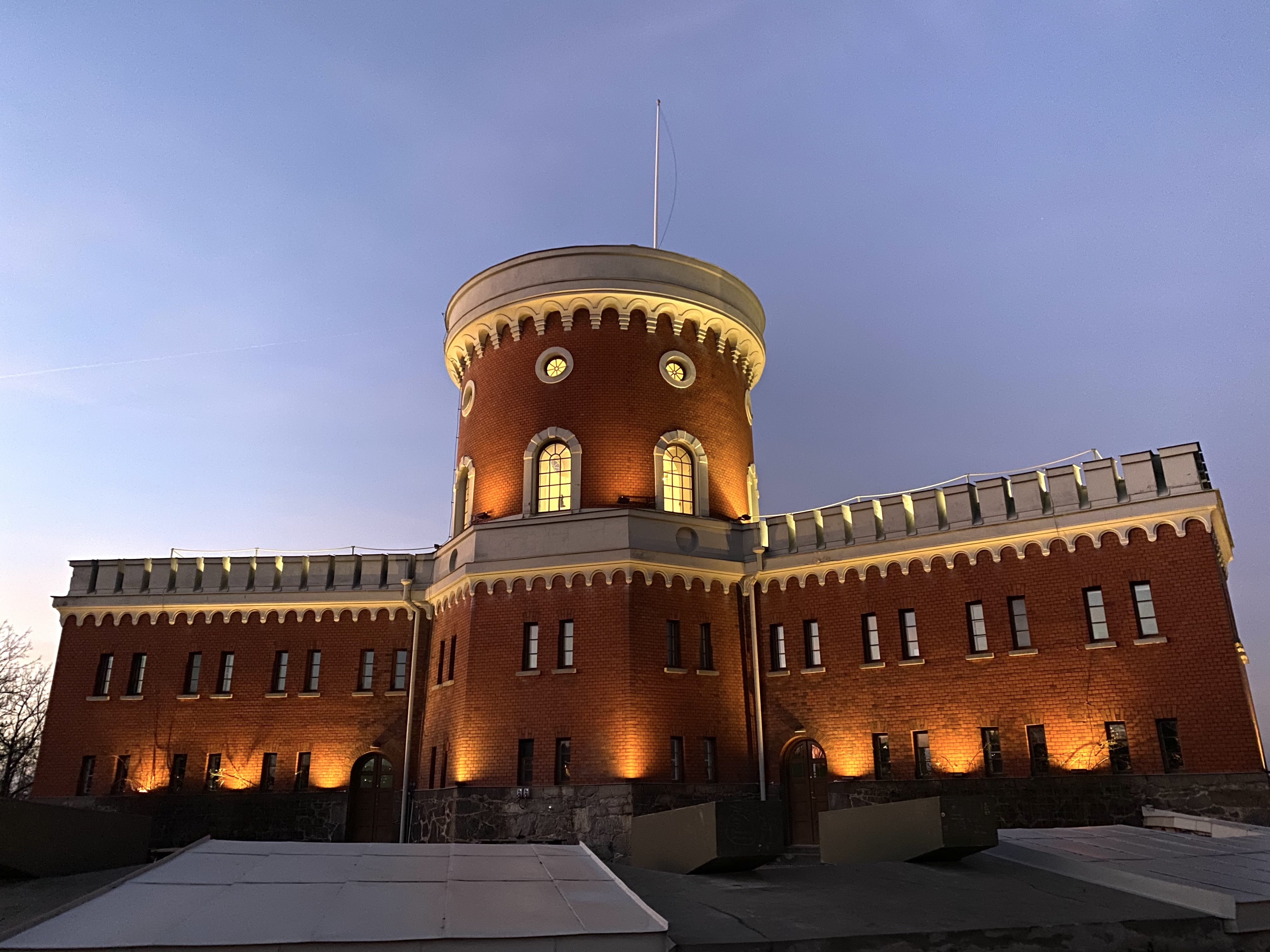 Image of Kastellet building on Kastellholmen in Stockholm, taken in the evening of January 2, 2020 with the facade lit.